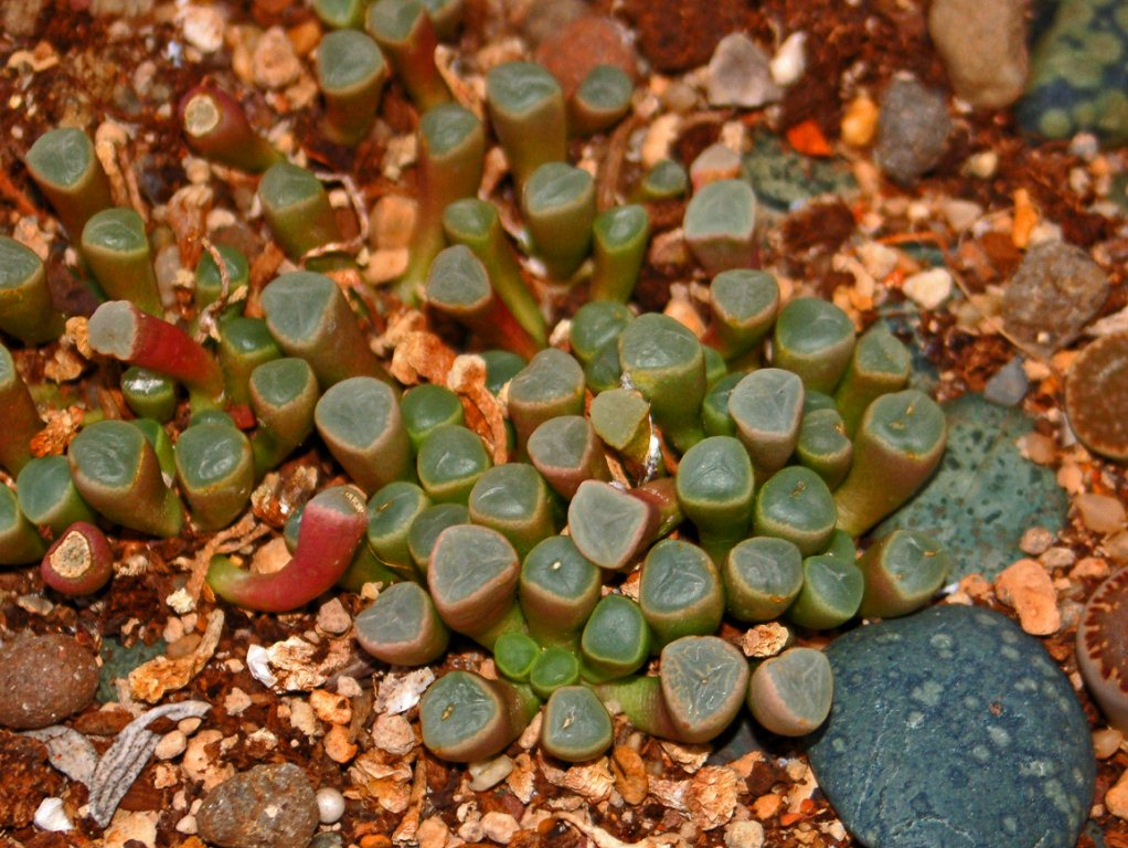 Fenestraria rhopalophylla at the botanical garden of Villa Durazzo-Pallavicini, Genova Pegli